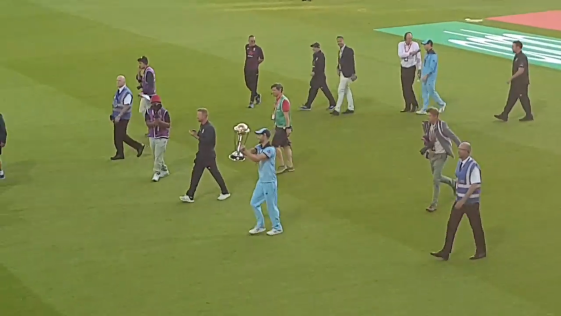 Eoin Morgan carries cricket world cup trophy